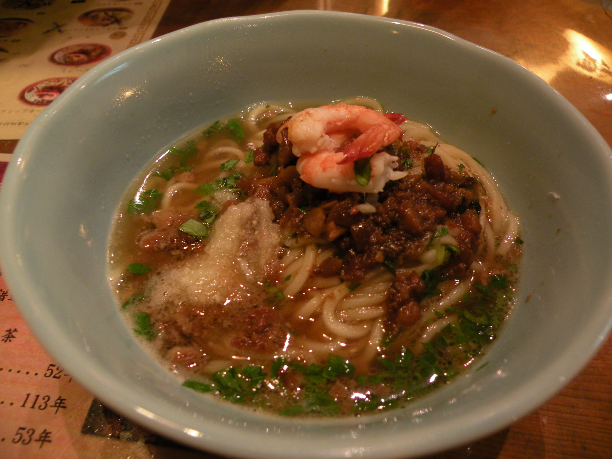 Tan Tsai Noodle (擔仔麵) of Tu Hsiao Yueh (度小月), Tainan, Taiwan